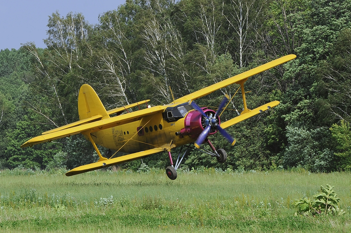 An-2.Launch and bend against a strong wind!